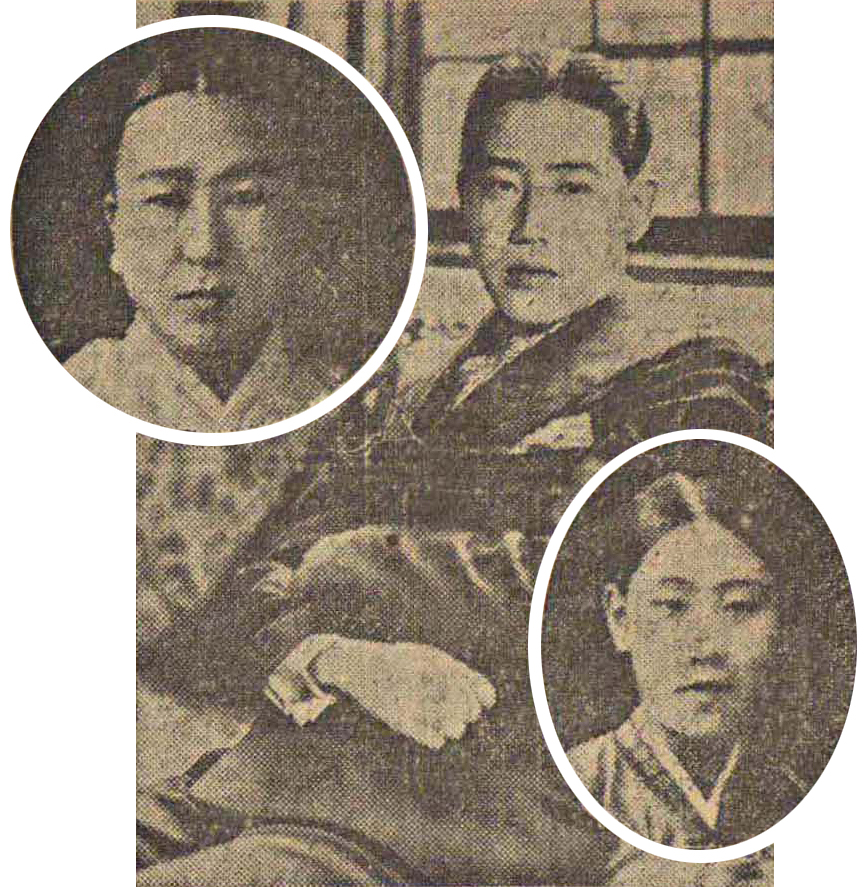 Family of Prince Yi Wu(Lady Kim of Kwang-san, Yi Wu, Yi Jin-wan)